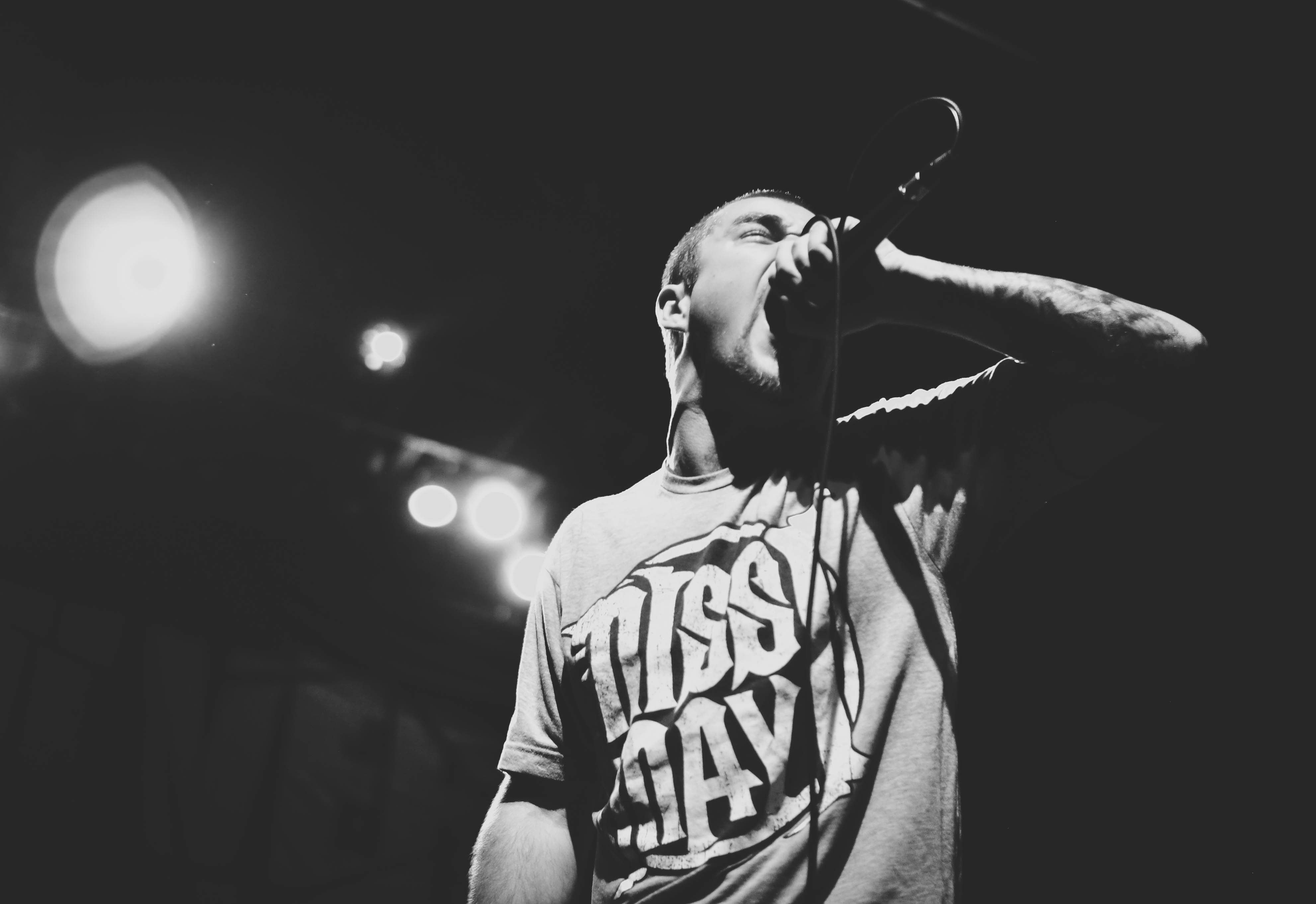 American singer Alex Good live in concert with his band Texas in July, 2012